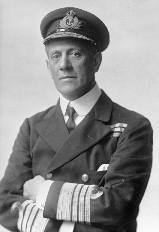 Vice Admiral Cecil Burney was Deputy Commander in Chief of the Grand Fleet and the Flag Officer Commanding the First Battle Squadron at the Battle of Jutland, 31 May 1916.